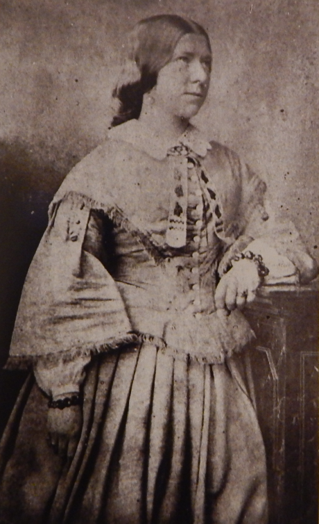 A circa 1854-58 photograph of Sarah Frances Hodge, sister of Thomas Hodge, an English painter and illustrator